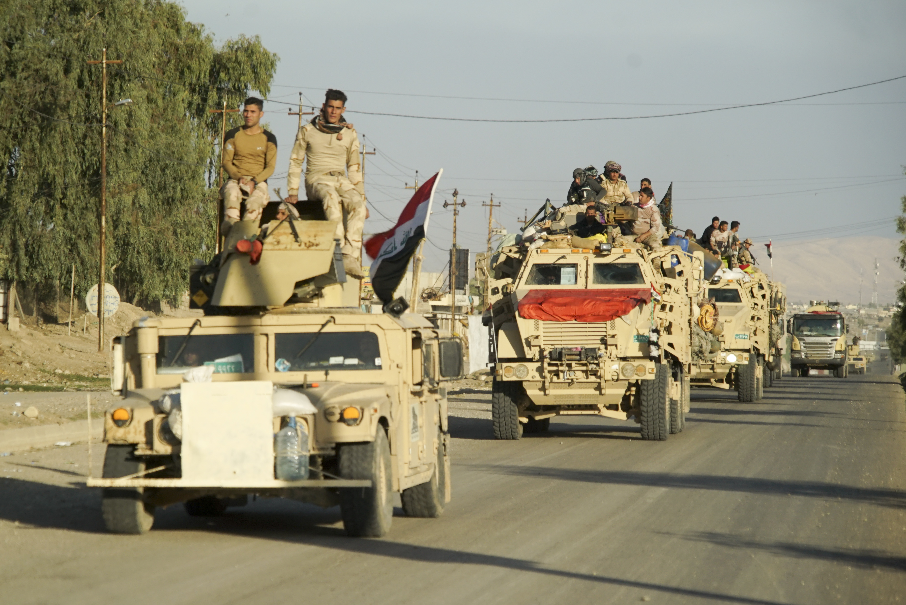 Iraqi army convoy. Mosul, Northern Iraq, Western Asia. 17 November, 2016.